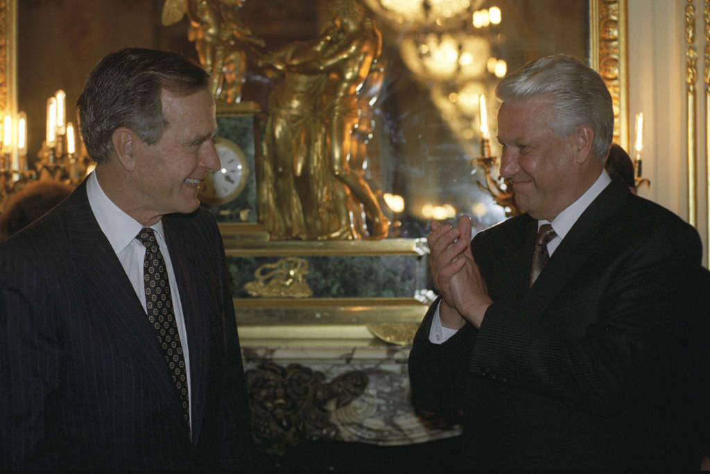 “US President George H. W. Bush and Russian President Boris Yeltsin”. Russian-US summit. Russian President Boris Yeltsin paying a state visit to the United States. From left: US President George H. W. Bush and Russian President Boris Yeltsin attending lunch at the Russian Embassy in the United States.